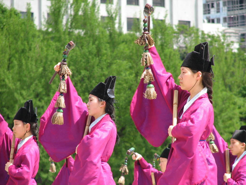 Korean Royal Ancestral Rite-Jongmyo Jerye